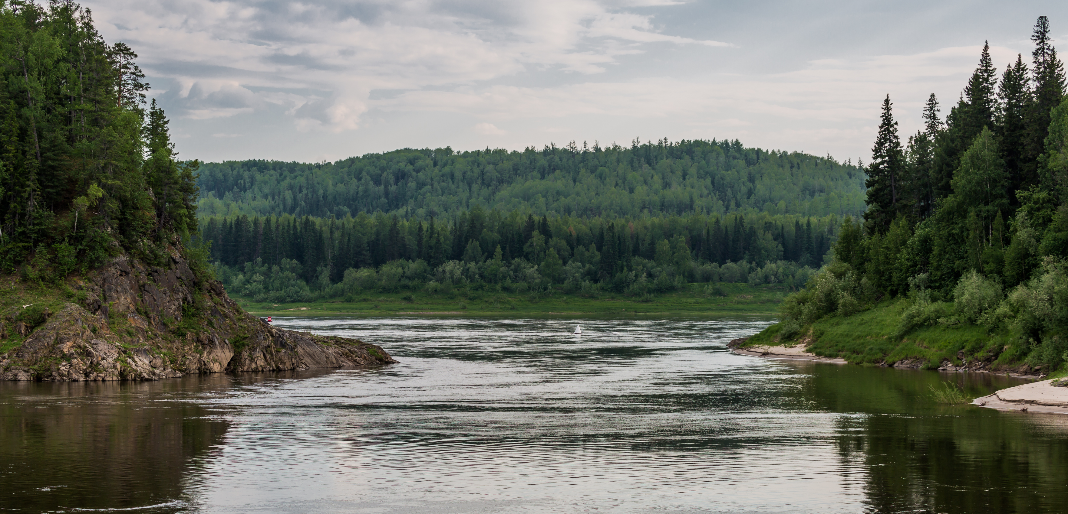 Yenisei River